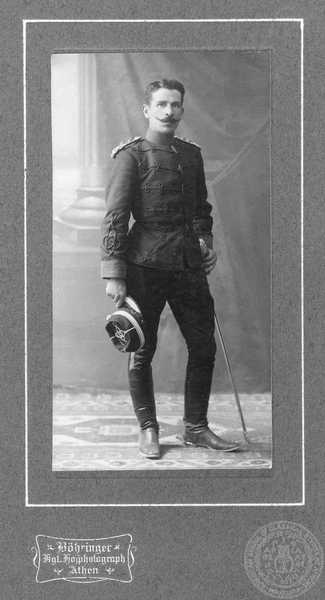 Greek revolutionary Panayotis Klitos